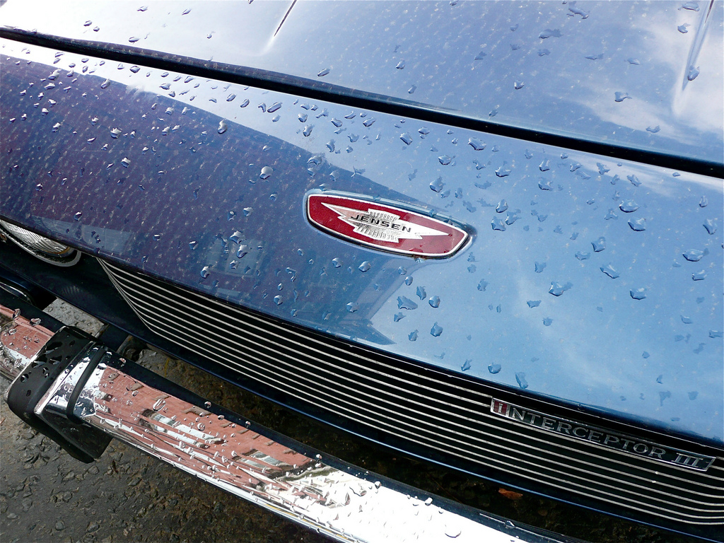 Jensen Interceptor (DVLA) first reg 5 July 1973 One of those obscure (well at least to the uninitiated like me) British (I assume), now defunct (I think) car makes. Some really interesting details which make for a design full of character. Think the rear looks a bit of botched design work though, in my opinion, like a good design idea that did not completely come through in execution. I realise I like these old cars who look like they were designed more by hand rather than with significant computer help.